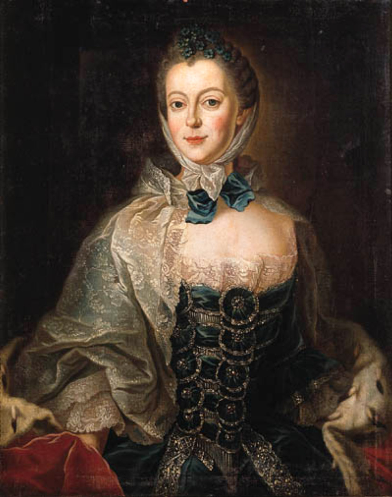 Portrait of Elisabeth Fredericka Sophie of Brandenburg-Bayreuth (1732-1780), Duchess of Württemberg